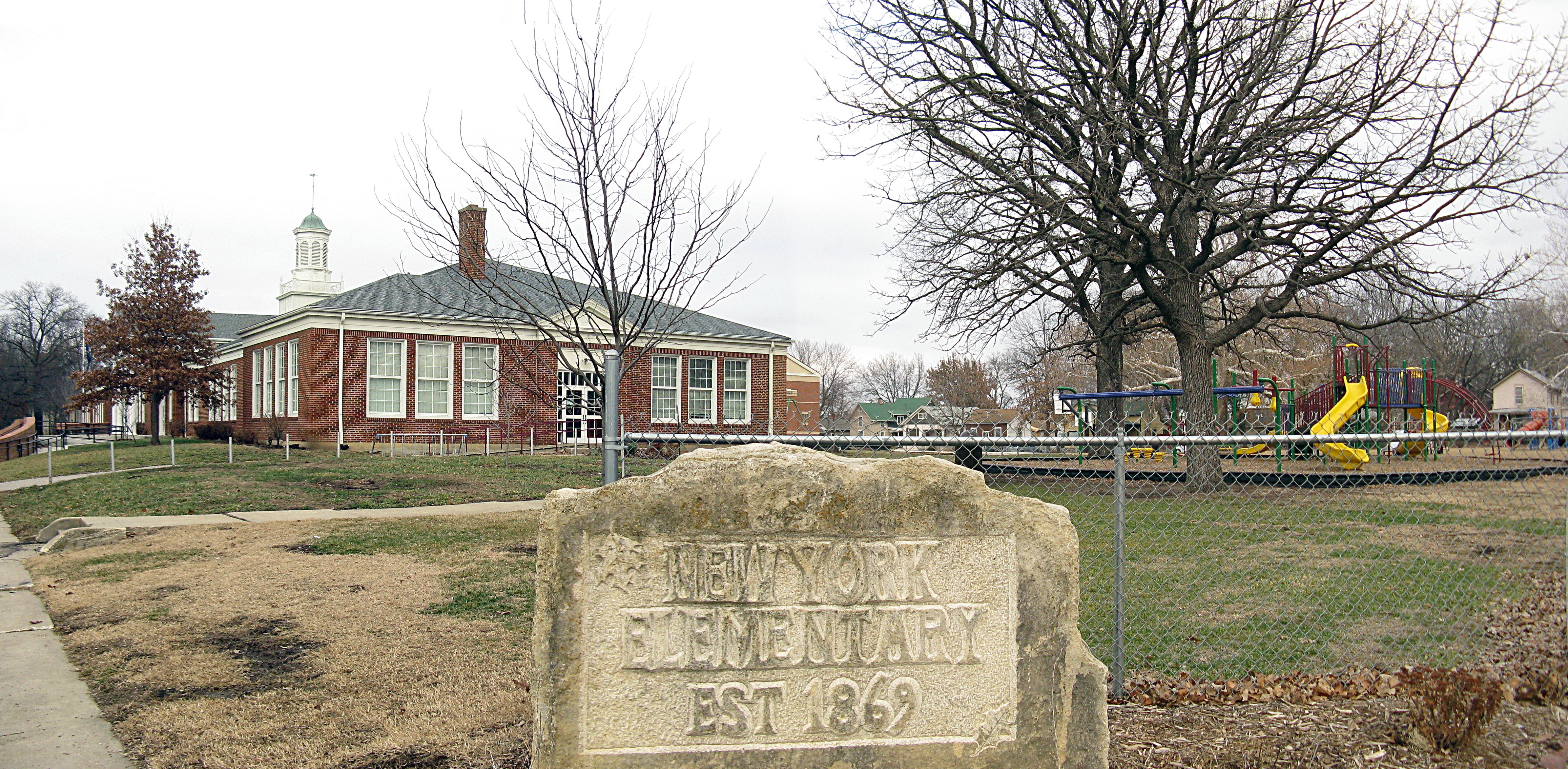 Lawrence, Kansas historic walking tour